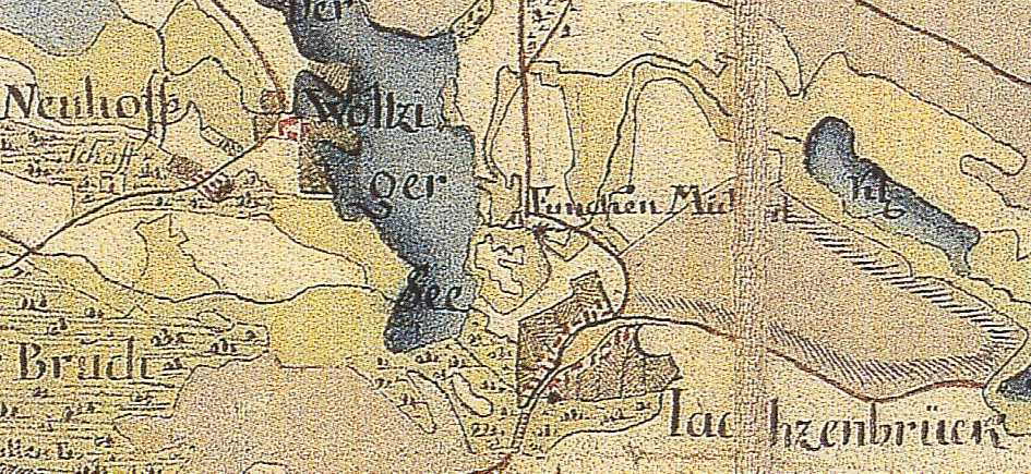 Lindenbrück (früher Jachzenbrück) auf der Schmettau'schen Karte von 1767-87, Lindenbrück, Stadt Zossen, Brandenburg, Deutschland